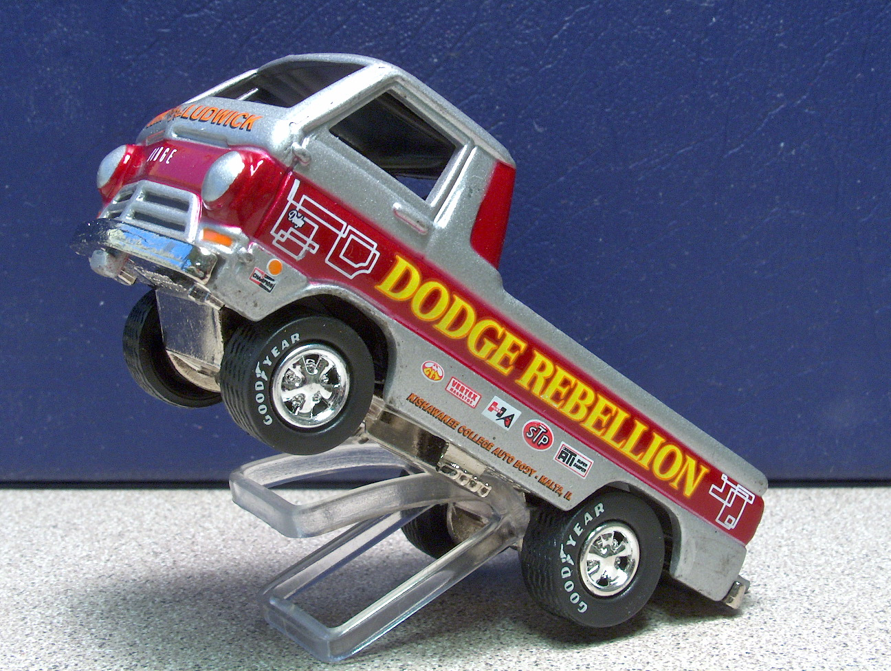 Johnny Lightning Dodge Rebellion 1/64 model of Dodge A100 dragster.